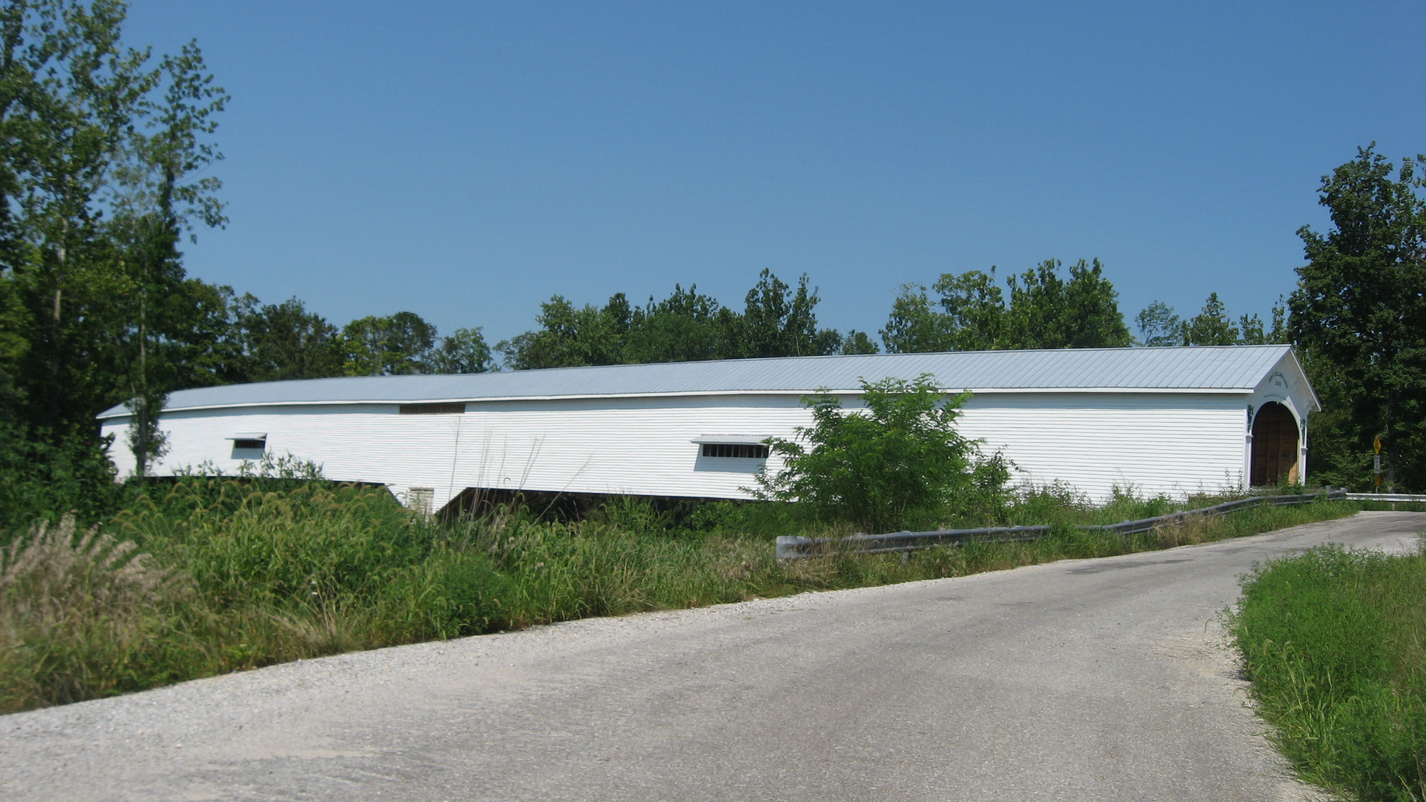 Southern (downstream) side of the rebuilt Moscow Covered Bridge, which carries County Road 900S over the Flat Rock River at Moscow, Indiana, United States. Built in 1886, destroyed by a tornado in 2008, and rebuilt in 2010, it is listed on the National Register of Historic Places.